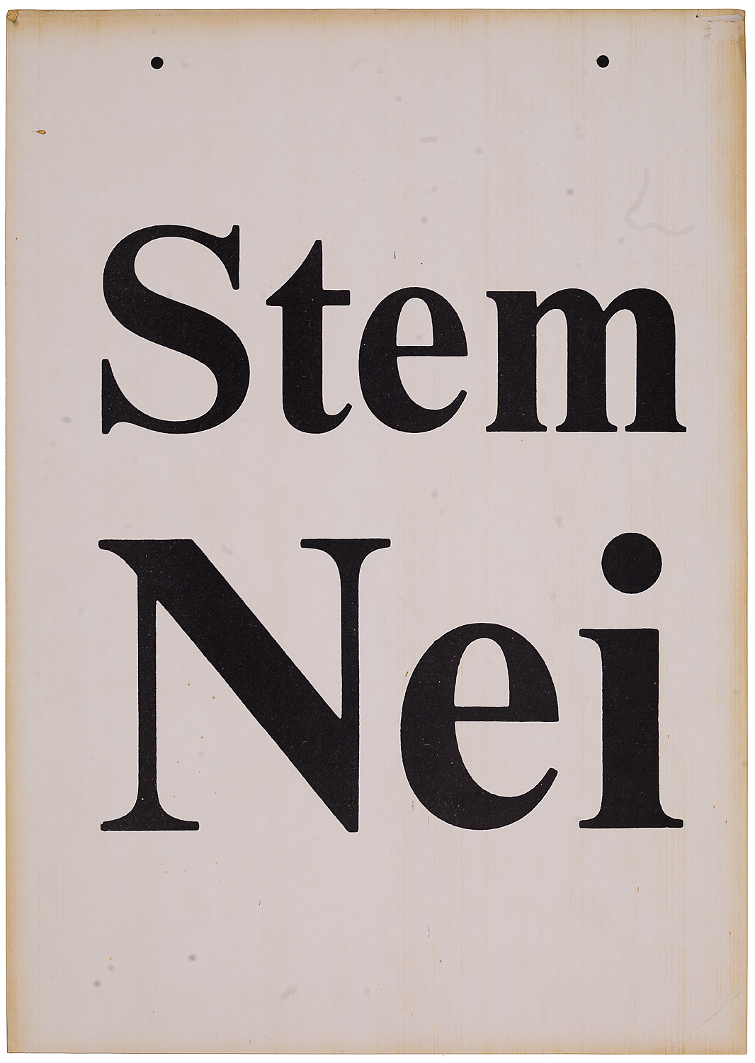 Image from National Archives of Norway's Flickr-Album "Protest" (all images marked with "No known copyright restrictions")